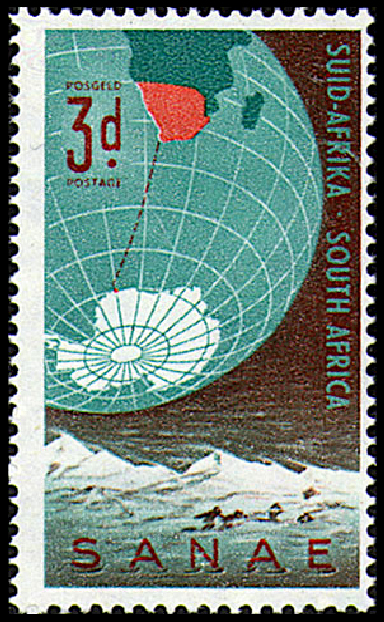 Postage stamp of South Africa, National Antarctic Expedition, 3d, 1959